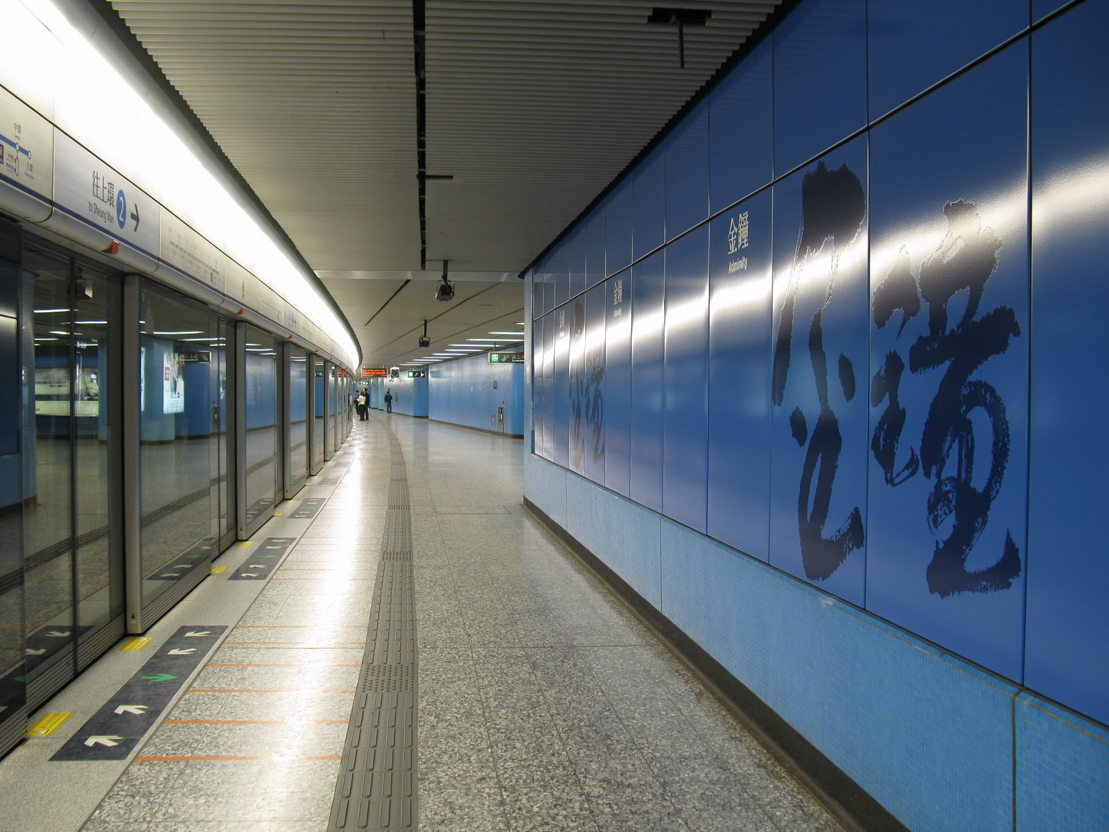 金鐘站-港島綫月台 Island Line Platform of Admiralty Station